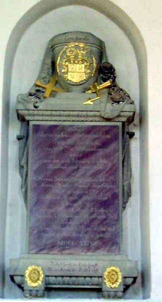 Epitaph von Beck zu Willmendingen